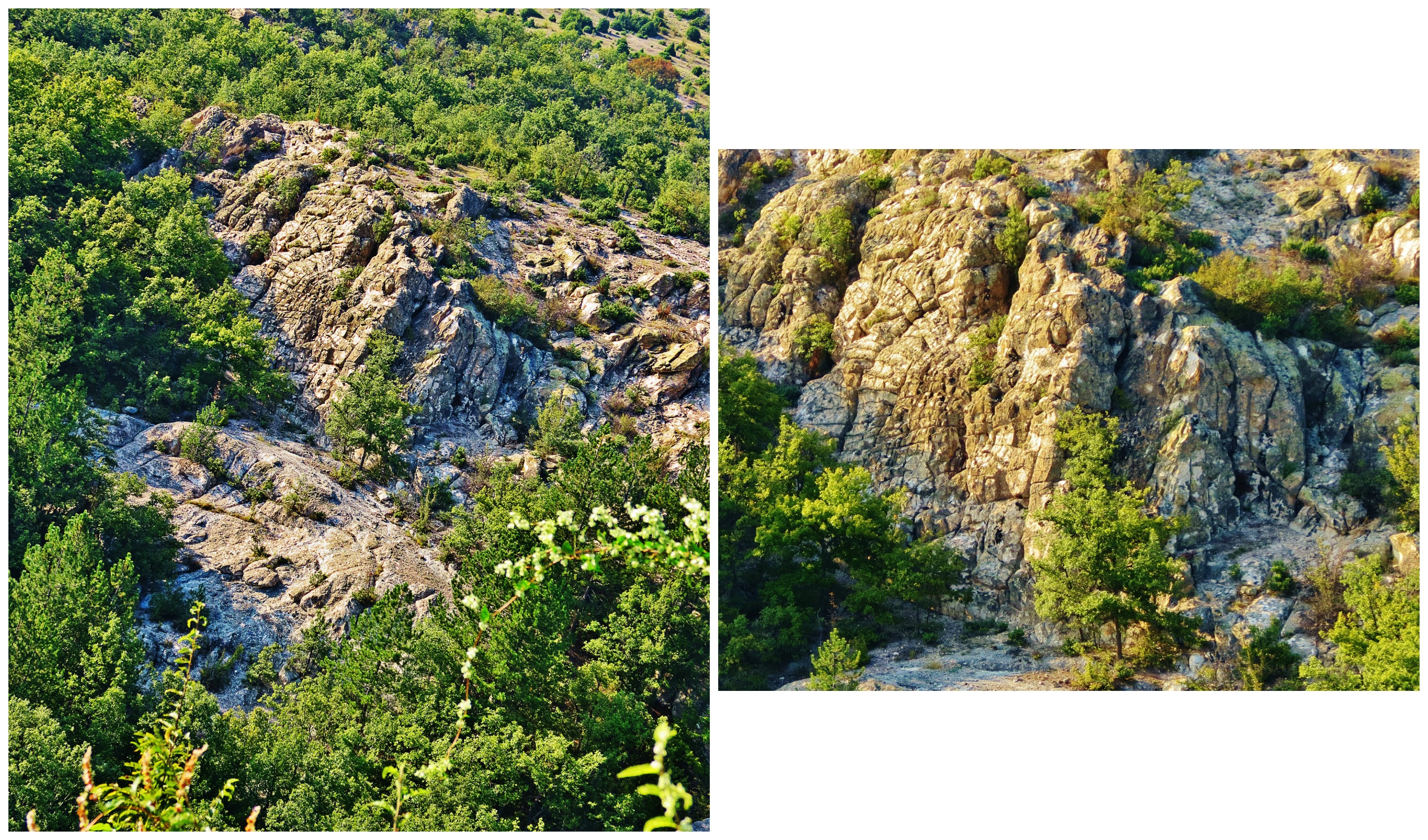 Tatul_rock_calendar_sanctuary_East_Rodopes_Bulgaria